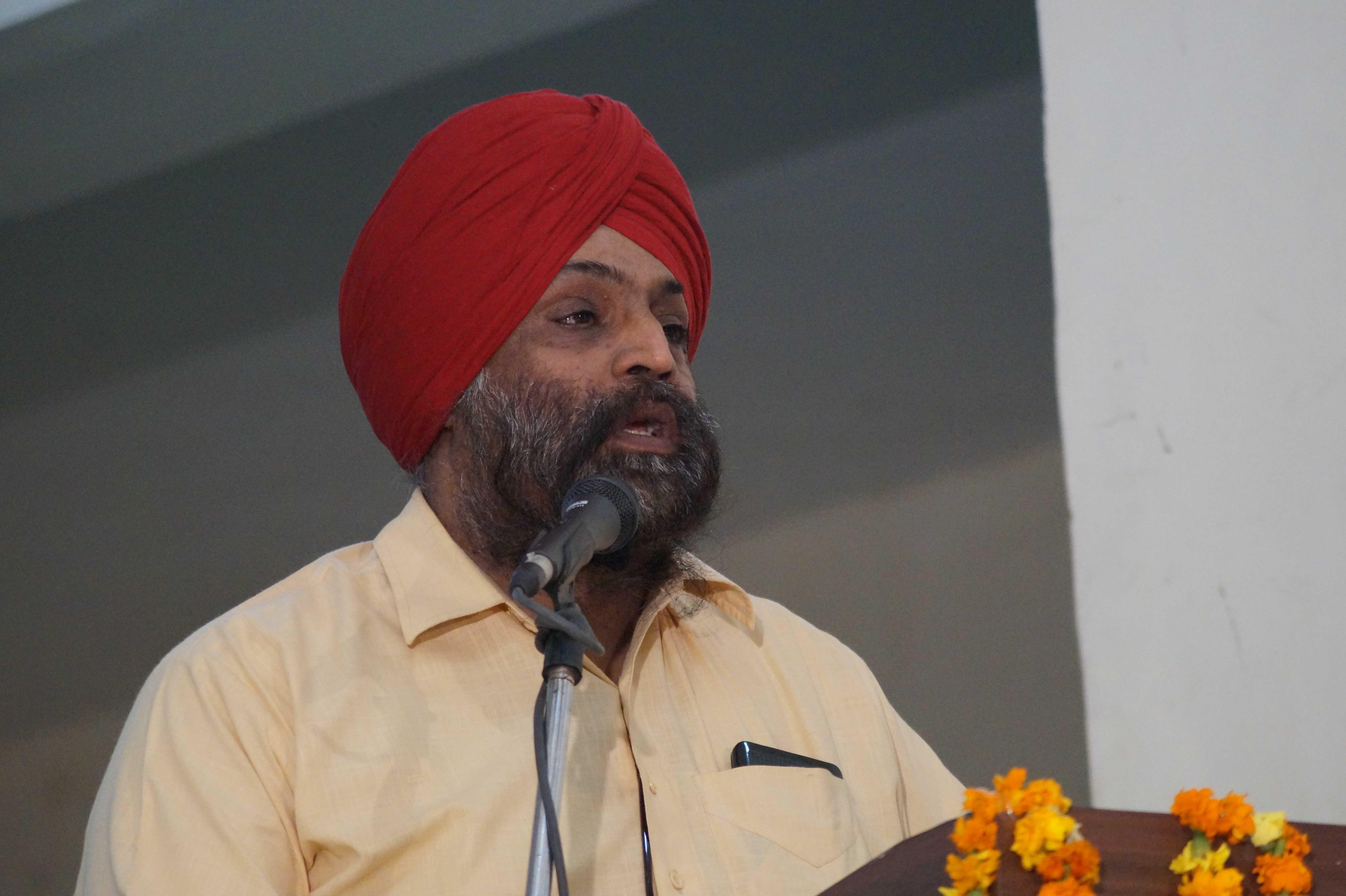 Harmeet Vidiarthy - a Punjabi poet